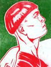 Detail of poster from early times of Korenization policy in Ukraine, showing a bowl cut.